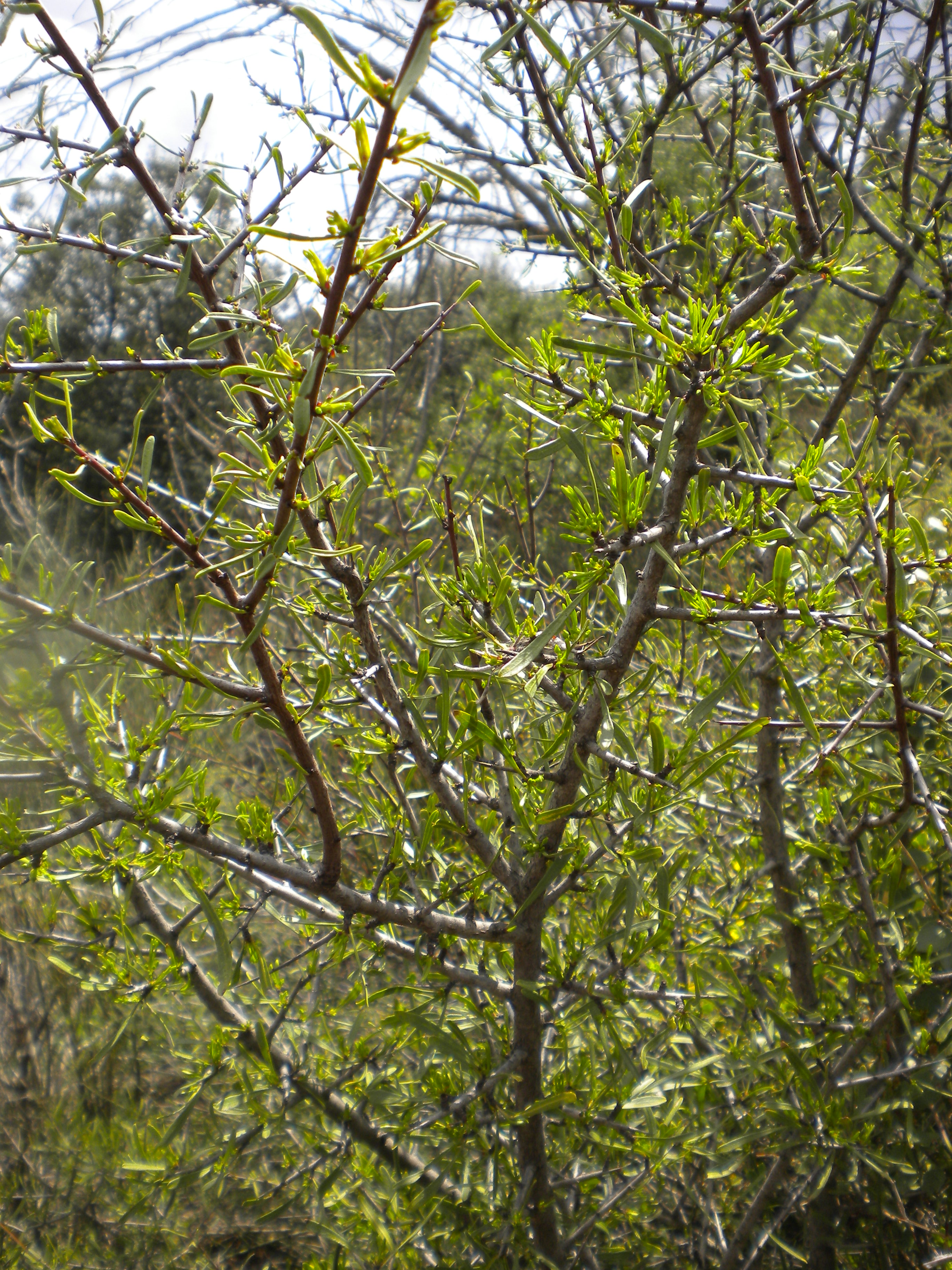 Rhamnus lycioides (black hawthorn). Family Rhamnaceae.